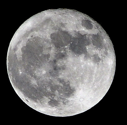 This is a picture of the Supermoon that occurred on March 19,2011. This picture was taken by Christelle Callen at 11:55pm in Spokane, WA, USA. The camera used was a Nikon D90 and the original image was cropped and cleaned up in Picasa